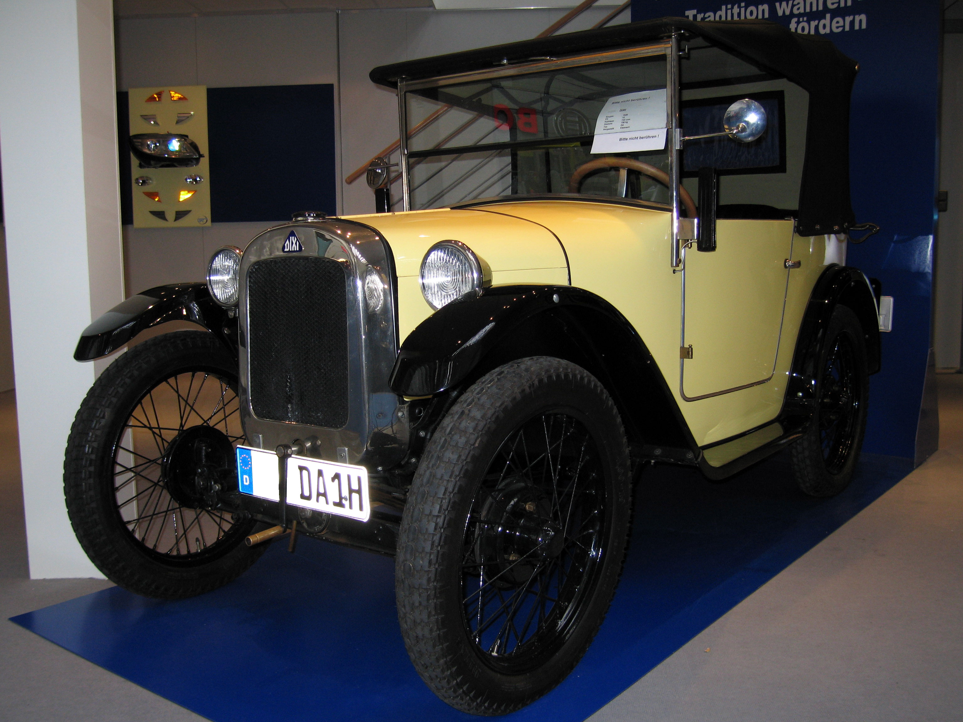 BMW Dixi 3/15 DA at the IAA 2007